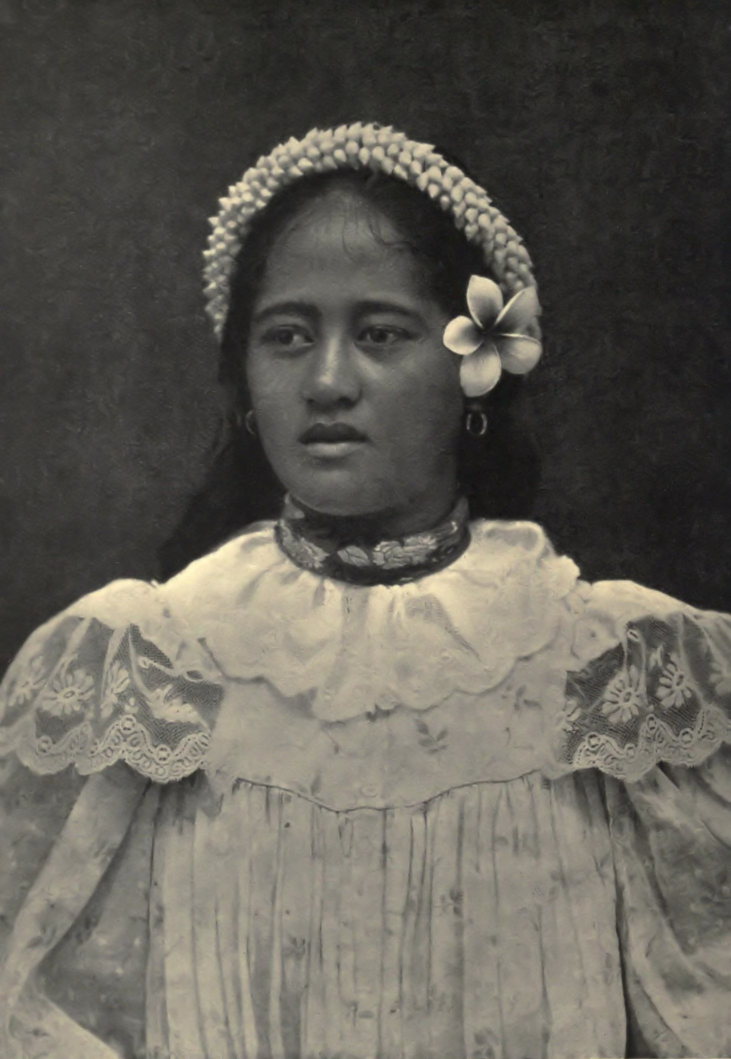 A Tahitian Darling - Pure Caste.